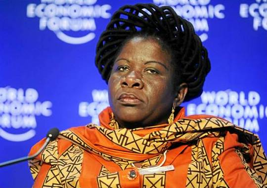 Luisa Diogo, Prime Minister of Mozambique captured during the session 'The State of Africa' at the Annual Meeting 2009 of the World Economic Forum in Davos, Switzerland.